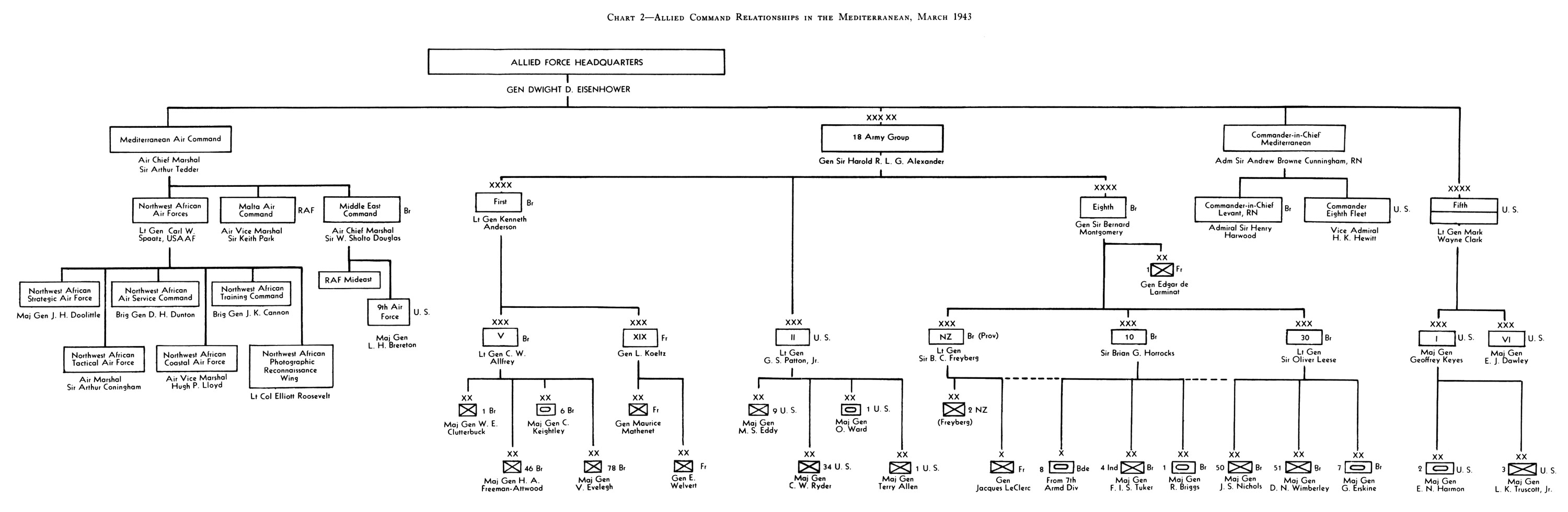 Command relationships in the Mediterranean, March 1943